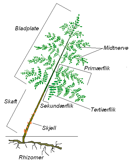 Structural composition of ferns. In Norwegian